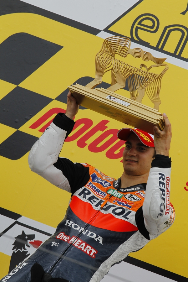 Dani Pedrosa, lifting his trophy celebrating on the podium after winning the 2011 German Grand Prix.